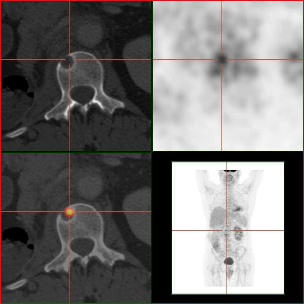 FDG-PET/CT scan of a bone metastasis of kidney cancer. The FDG-scan shows the metabolic activity of the tumor.